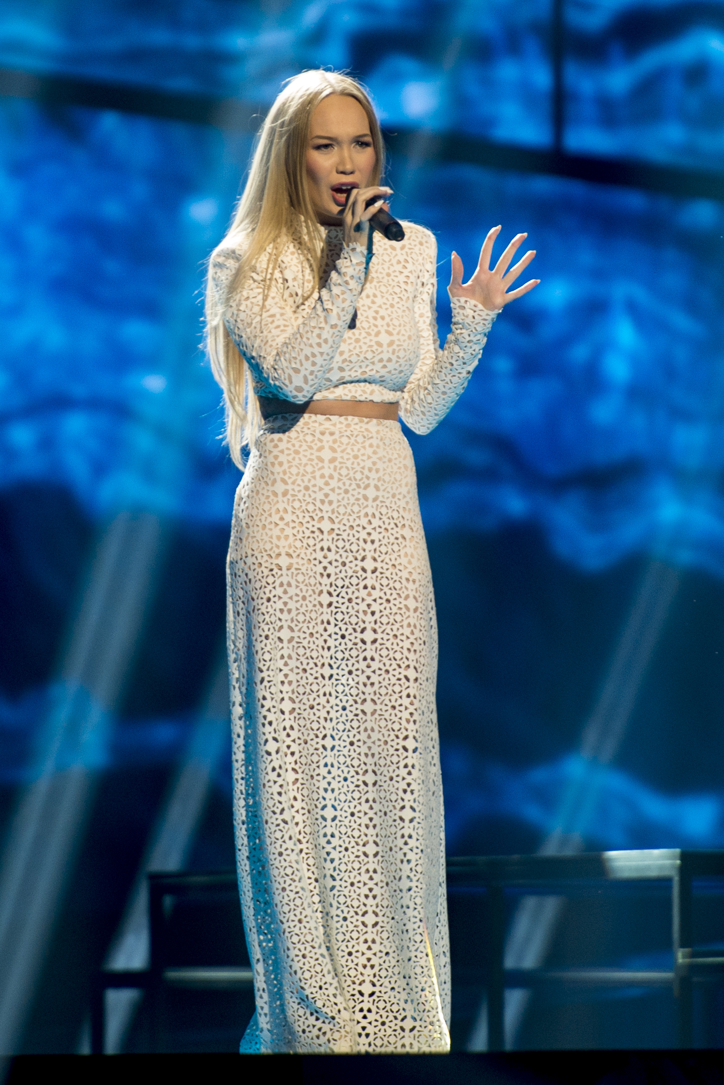 Agnete representing Norway with the song "Icebreaker" during a rehearsal before the second semi final of the Eurovision Song Contest 2016 in Stockholm. (Help translate this text)